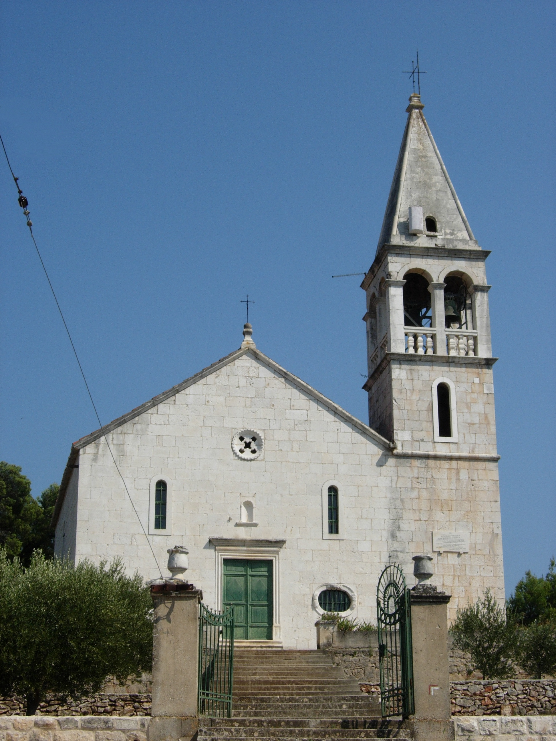 Gospa od zdravlja, Jelsa (SL01).